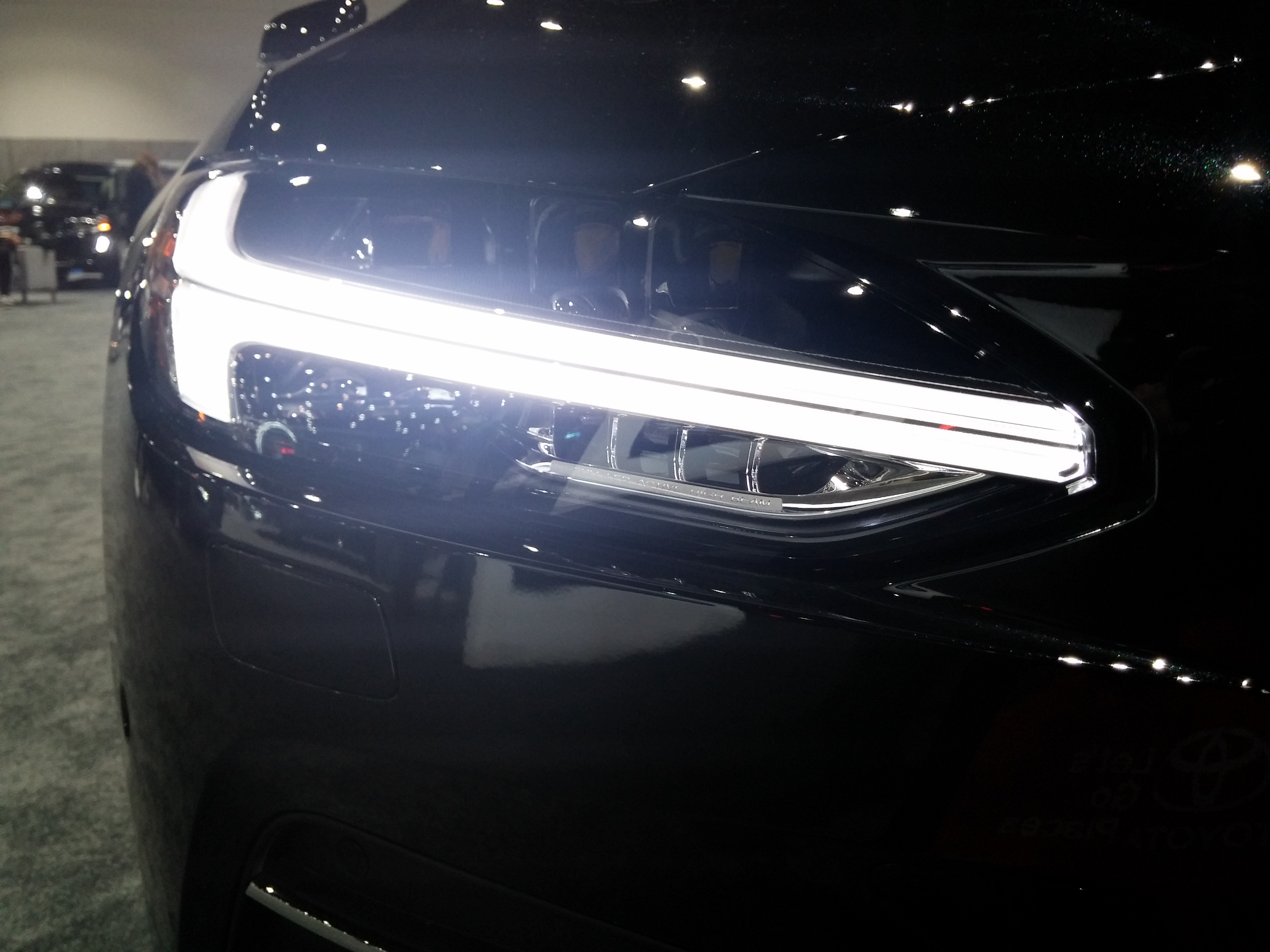 LED Daylight Headlight on Volvo XC90 2017.